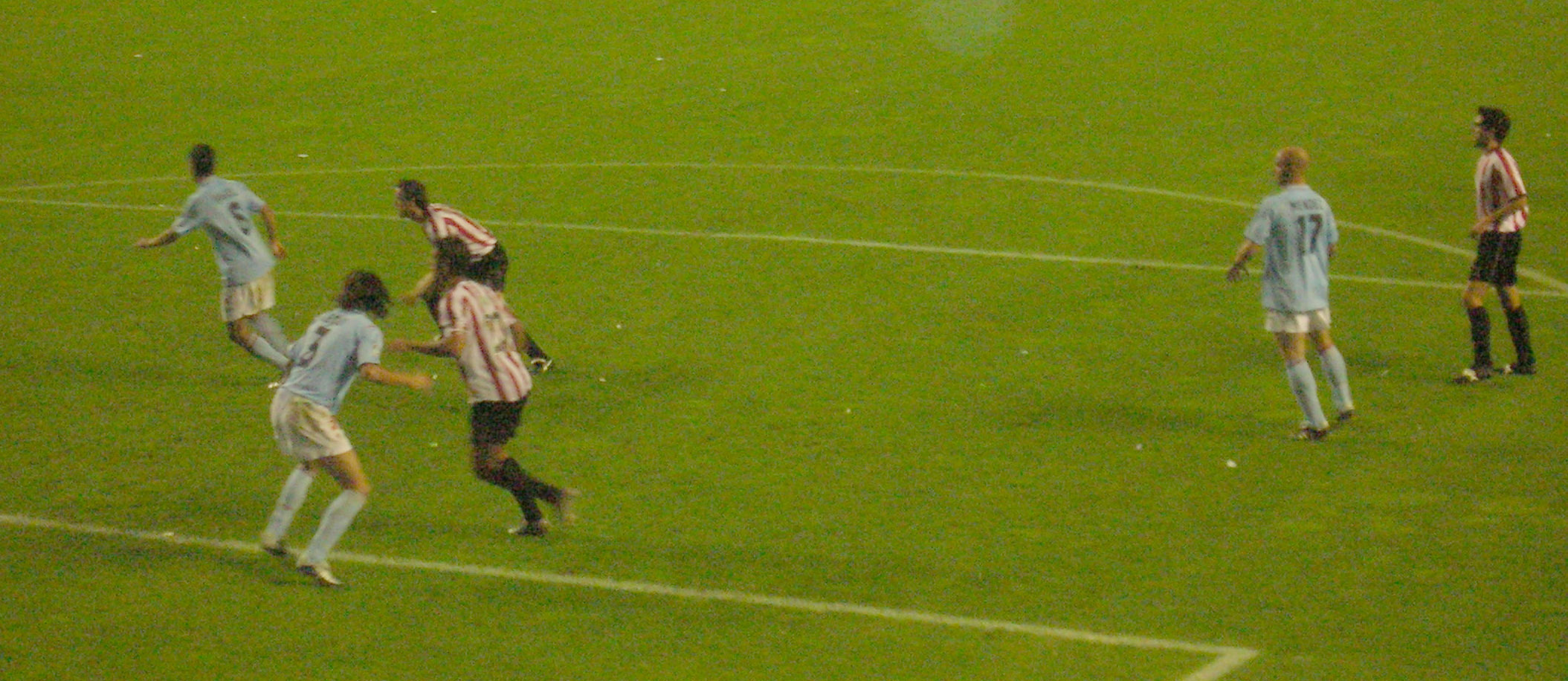 Athletic Club de Bilbao - Real Club Celta de Vigo SAD football match in San Mamés Cathedral, Bilbao, Biscay, Spain. Taken from Grada Norte / Grada de la Misericordia.